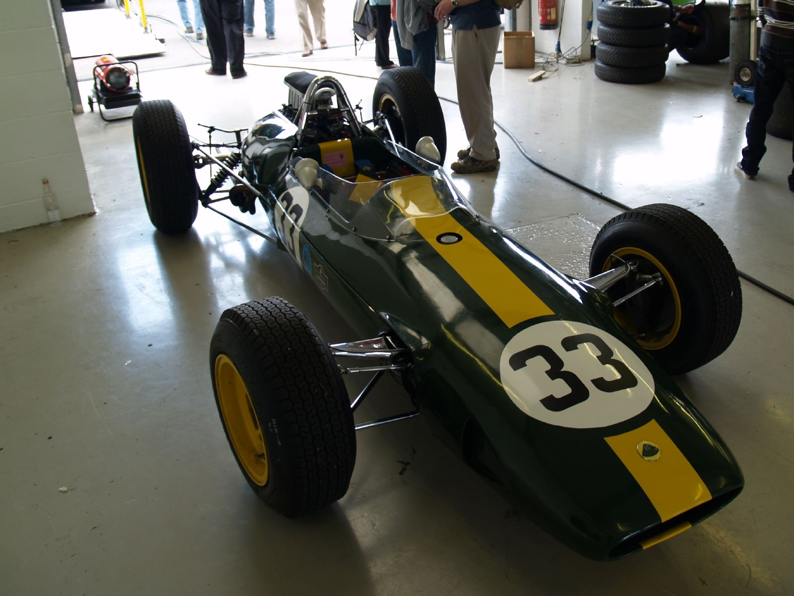 Lotus 33 in garages at Silverstone Circuit, July 2007.